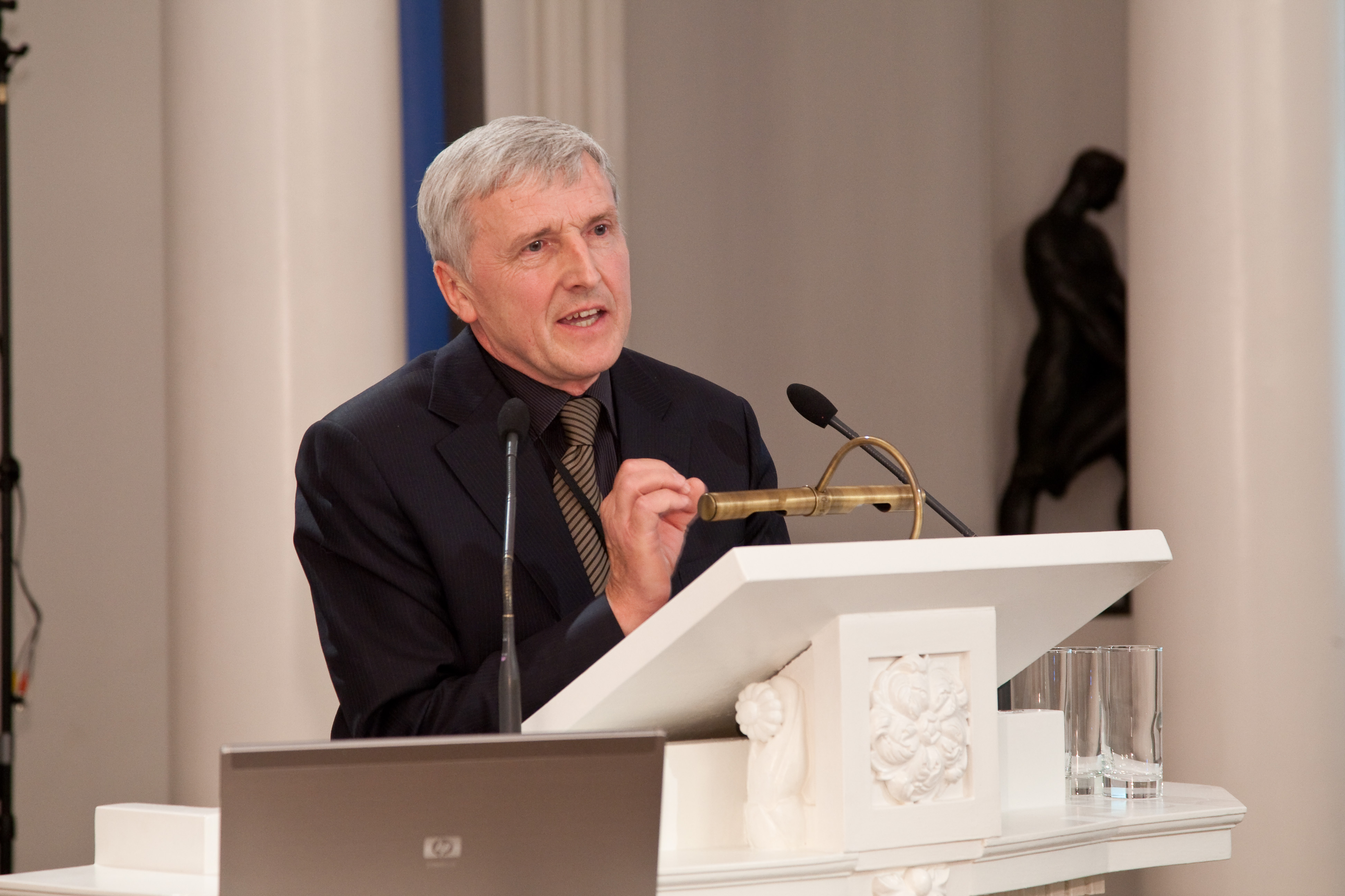 Talis Bachmann at the 10th conference of the Baltic Child Neurology Association on the 6th of May (2009).